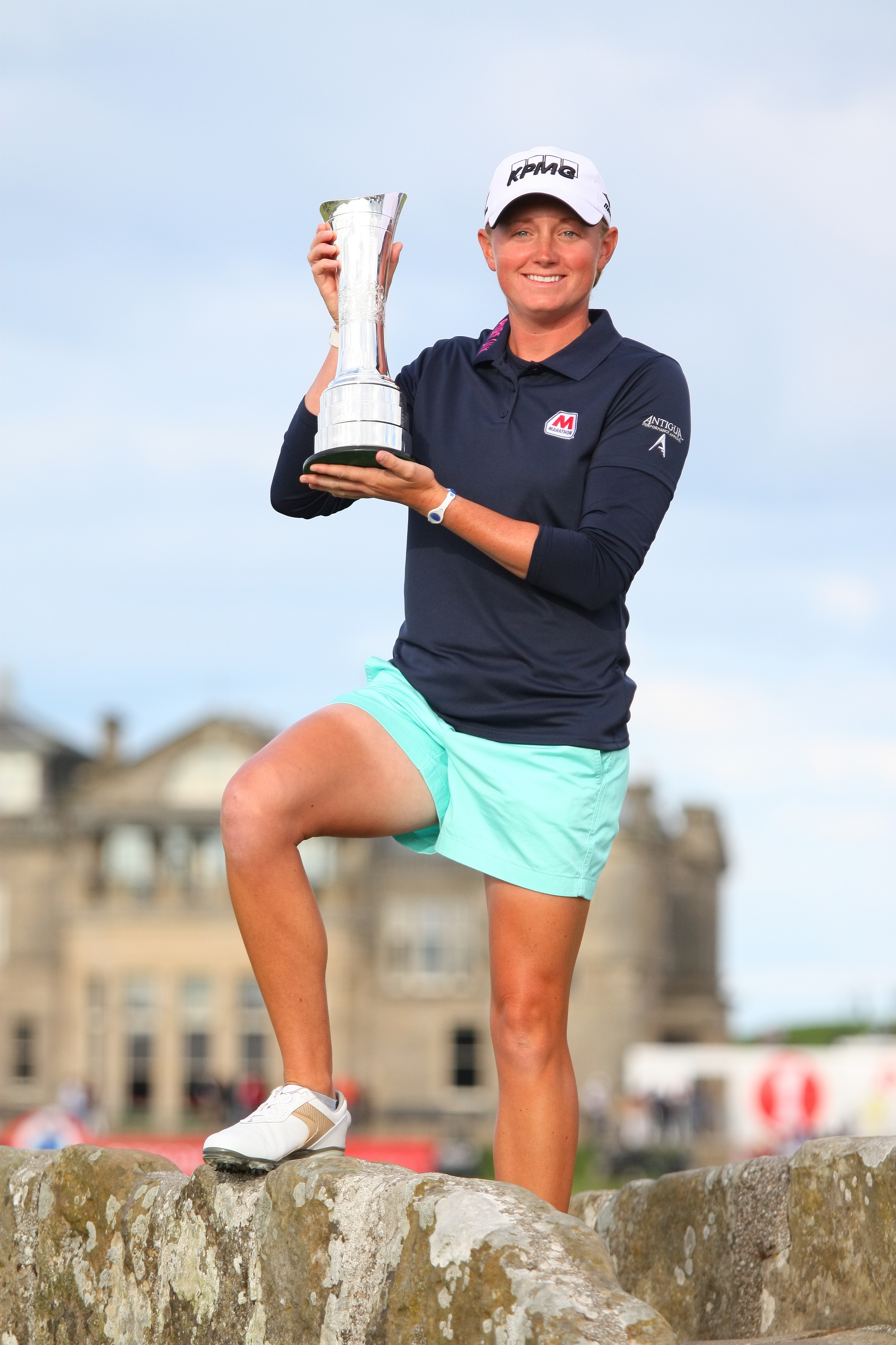 ST ANDREWS, SCOTLAND – AUGUST 4: Stacy Lewis of USA poses with the trophy on the Swilcan Bridge after completion of 2013 Ricoh Women's British Open held at St Andrews Old Course on August 4, 2013 in St Andrews, Scotland. (Photo by Wojciech Migda)